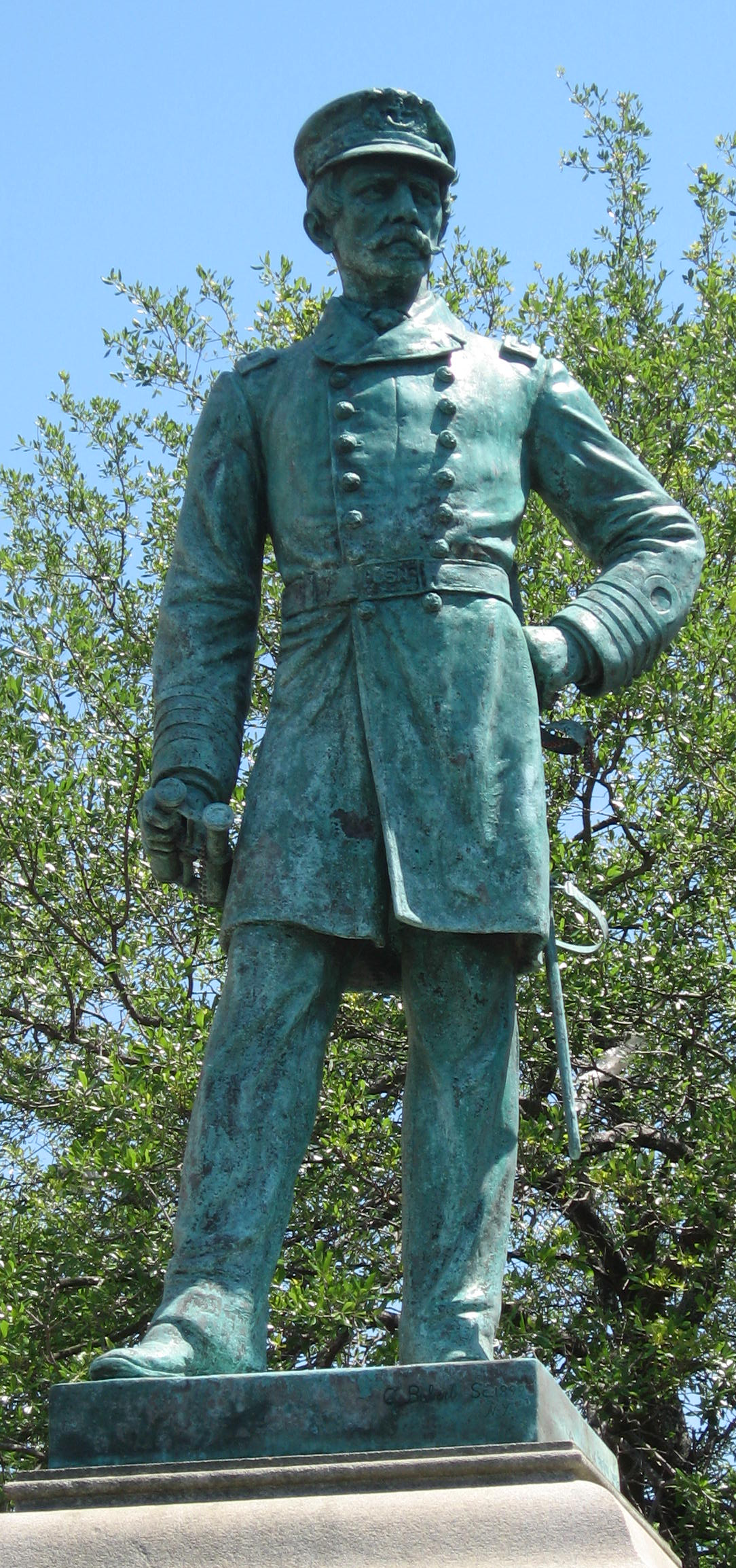 Standing figure of Admiral Raphael Semmes. He wears confederate attire, including a long coat which extends to his knees, and a cap on his head. His proper left arm is bent so that his fist rests on his hip, with sword hanging immediately behind. His proper right arm is at his side with binoculars in his hand. The base features three bronze plaques, including one which depicts the C.S. steamer Alabama at sea.